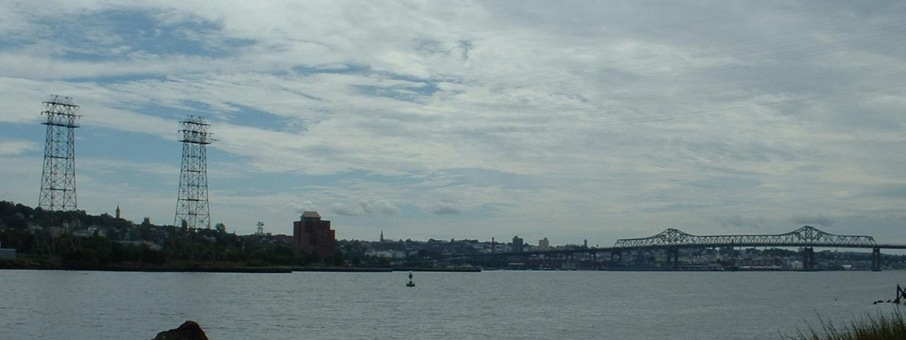 Fall River Skyline, including the Braga Memorial Bridge.